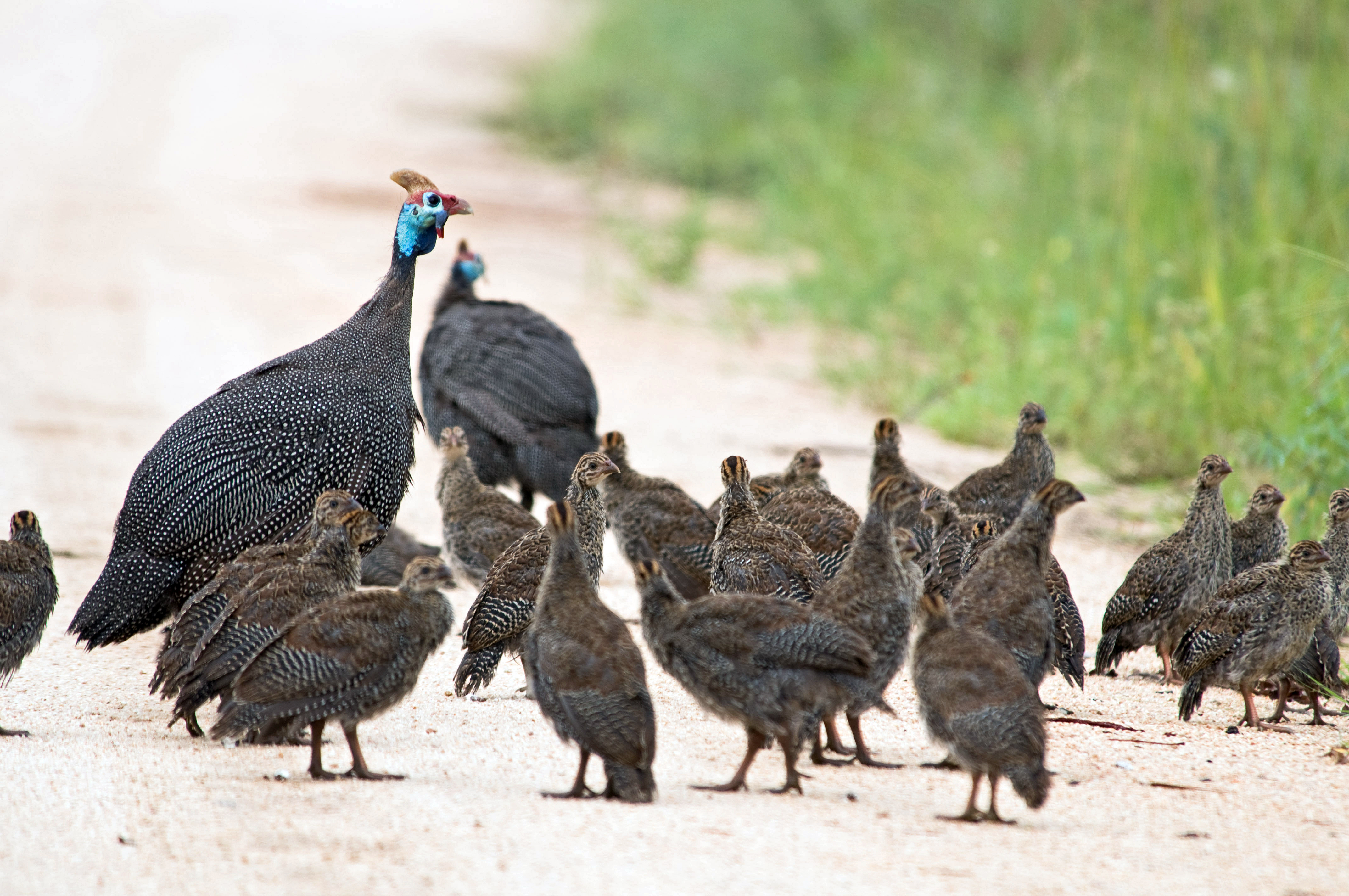 Helmeted Guineafowl (Numida meleagris) Dysmorodrepanis 19:26, 28 May 2008 (UTC)